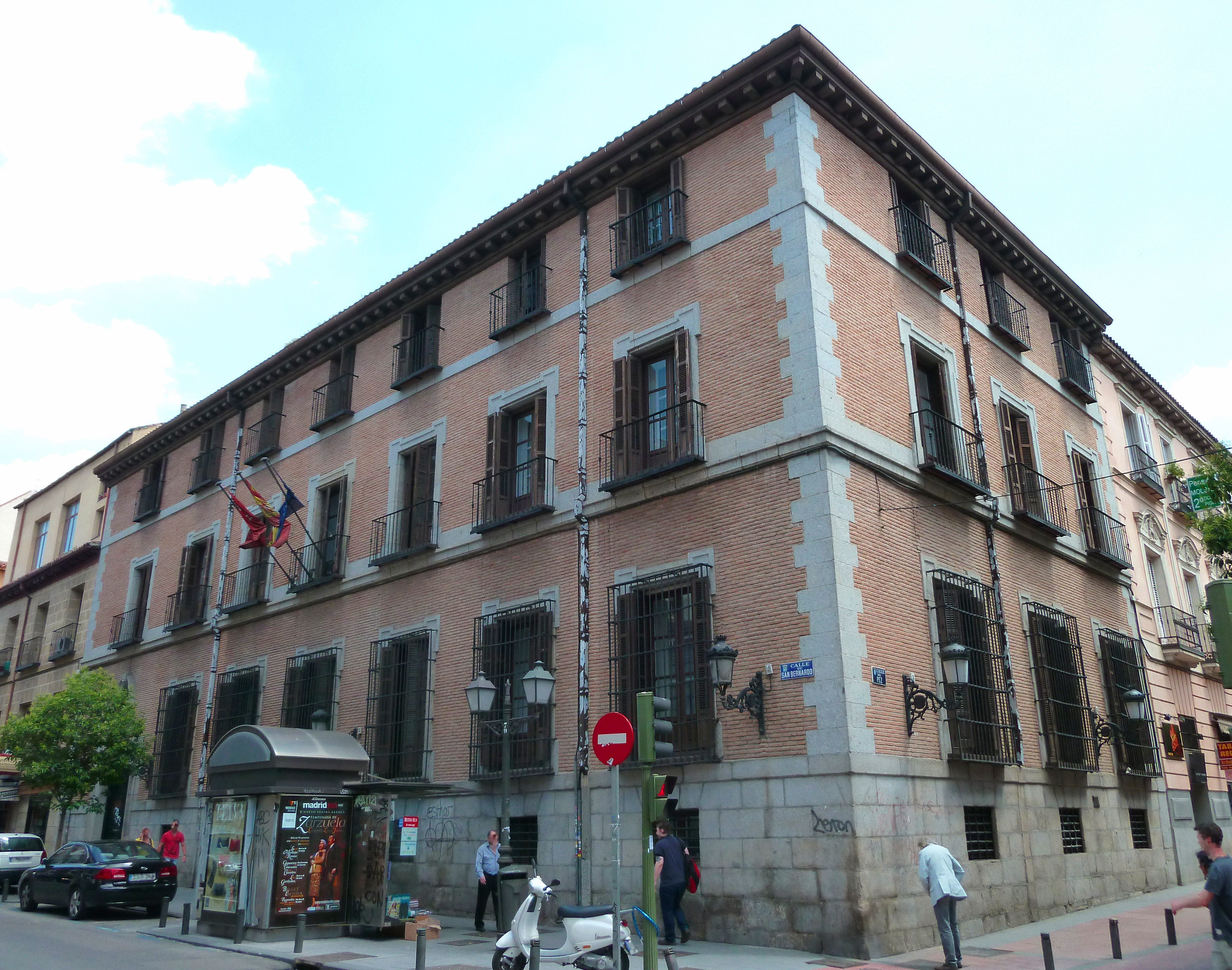 Façade of Bauer Palace in Madrid (Spain), at 44 Calle de San Bernardo (street) in Centro district. Building was made in the 18th century and purchased by the Bauer family in the 19th century.